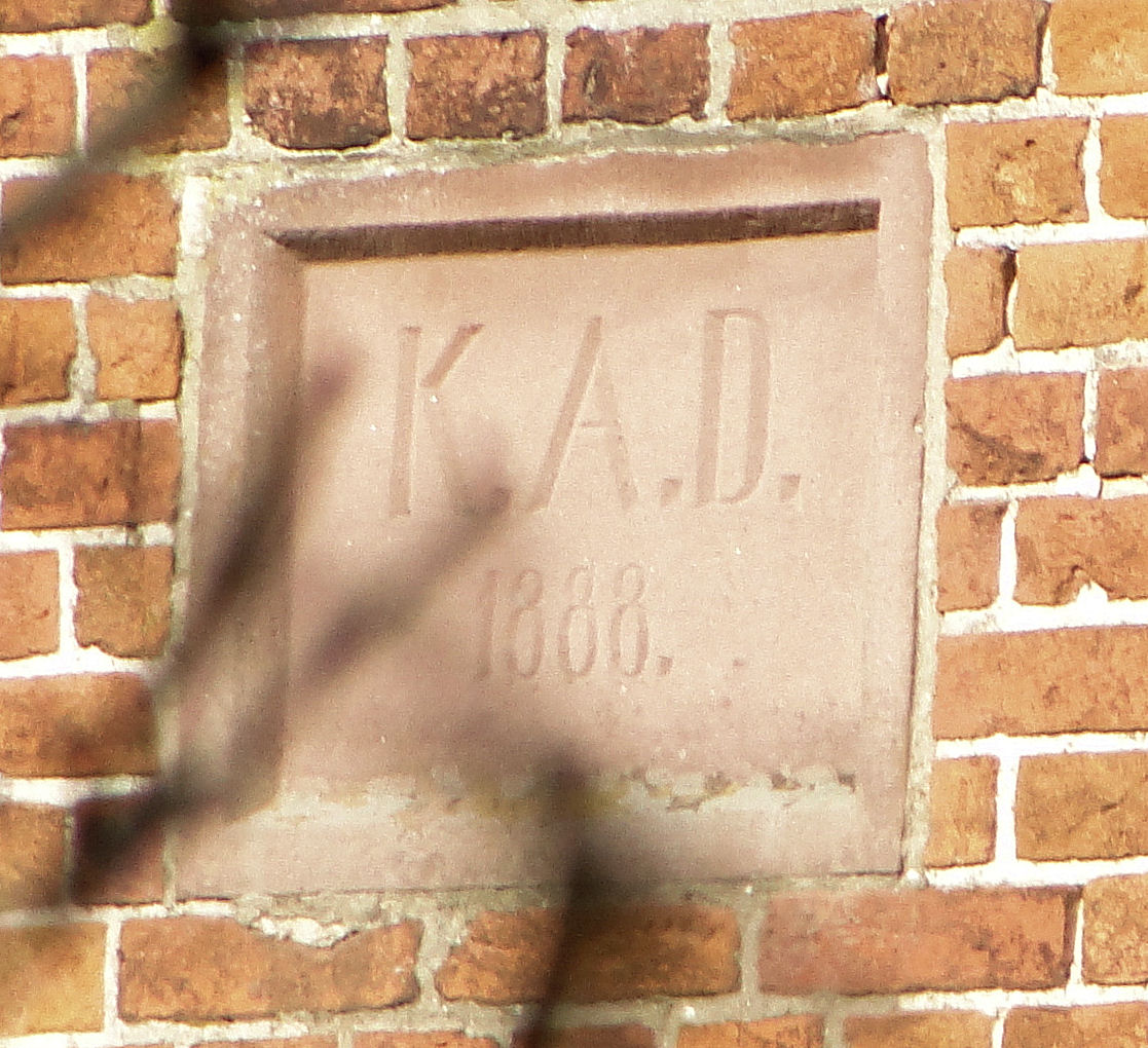 Stone with an inscription of the Klosteramt Dobbertin in the gable of a building of the manor in Darze, district Ludwigslust-Parchim, Mecklenburg-Vorpommern, Germany